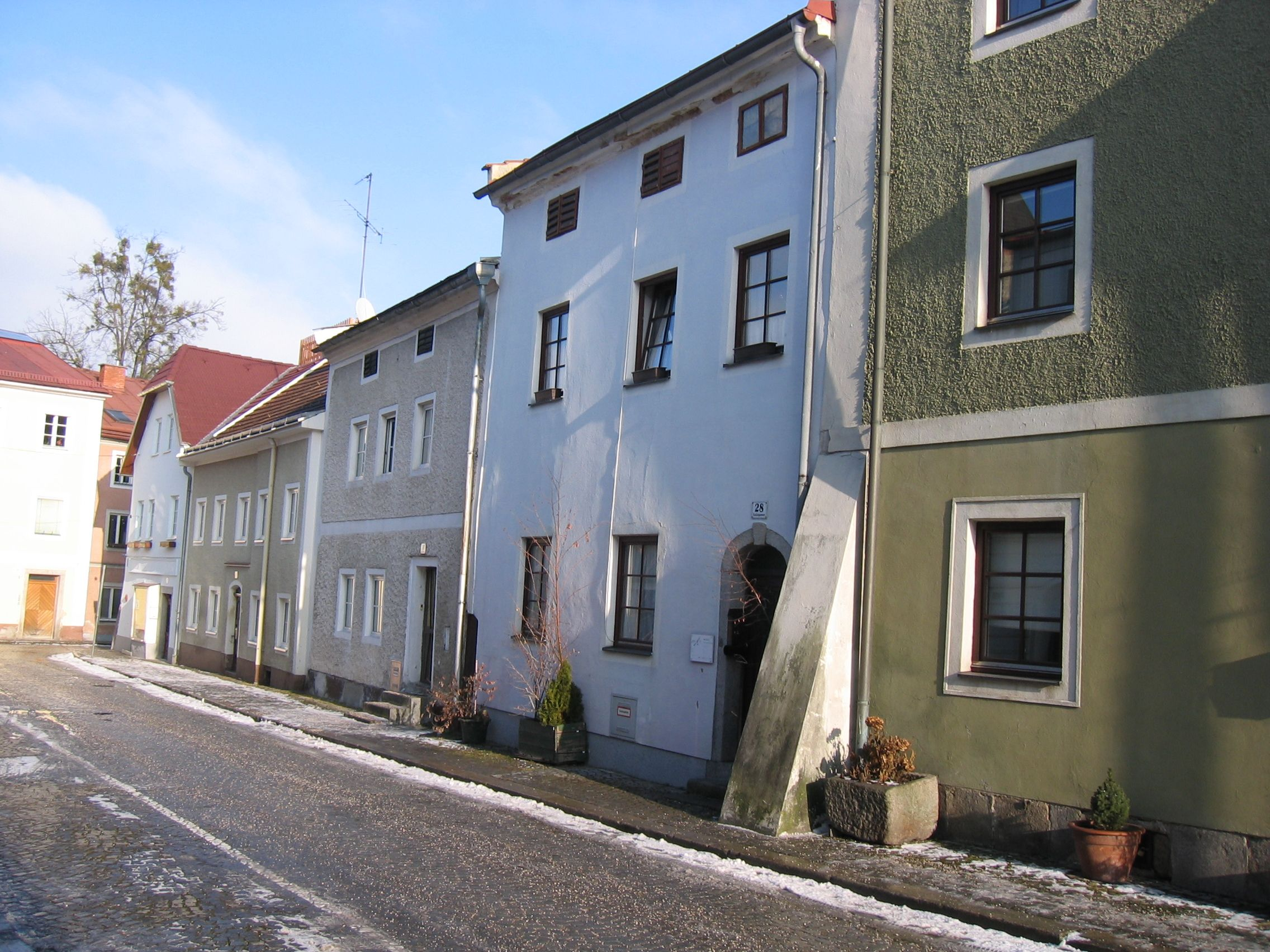 Salzgasse in Freistadt